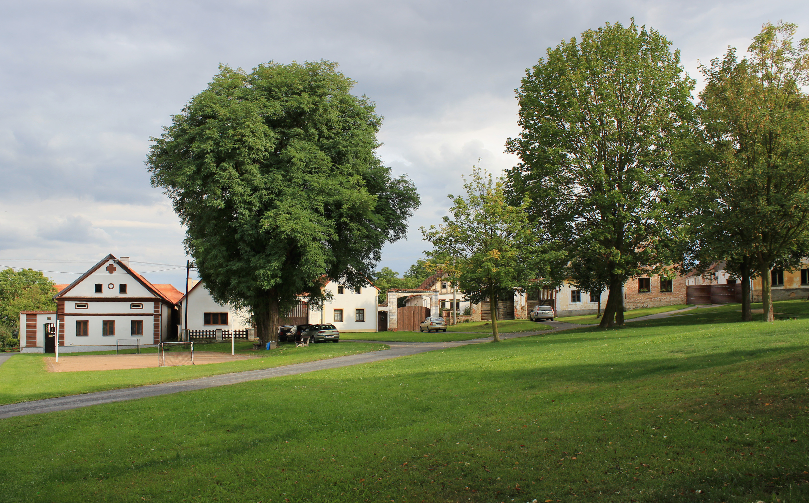 Common in Lochousice, Czech Republic.